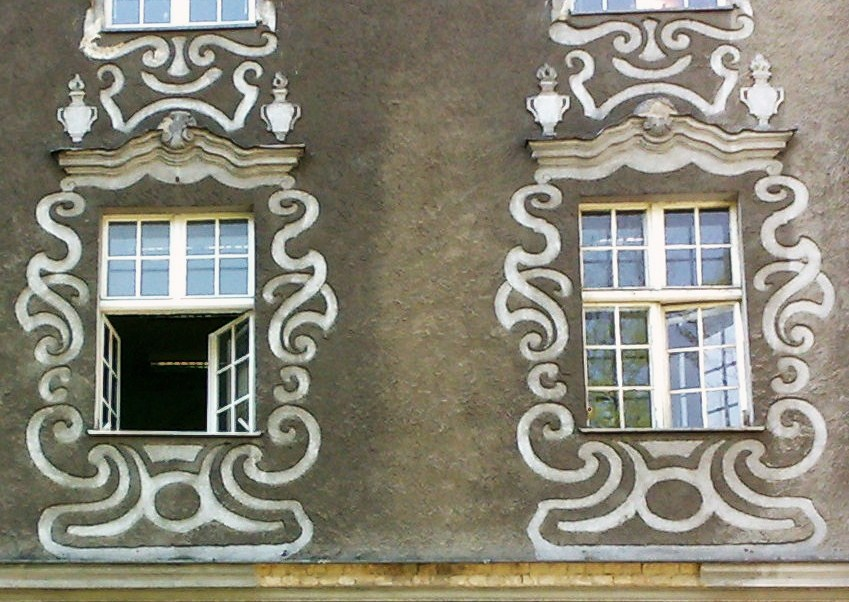 Detail of House for Old Mans in Poznan (Rynek Wildecki).